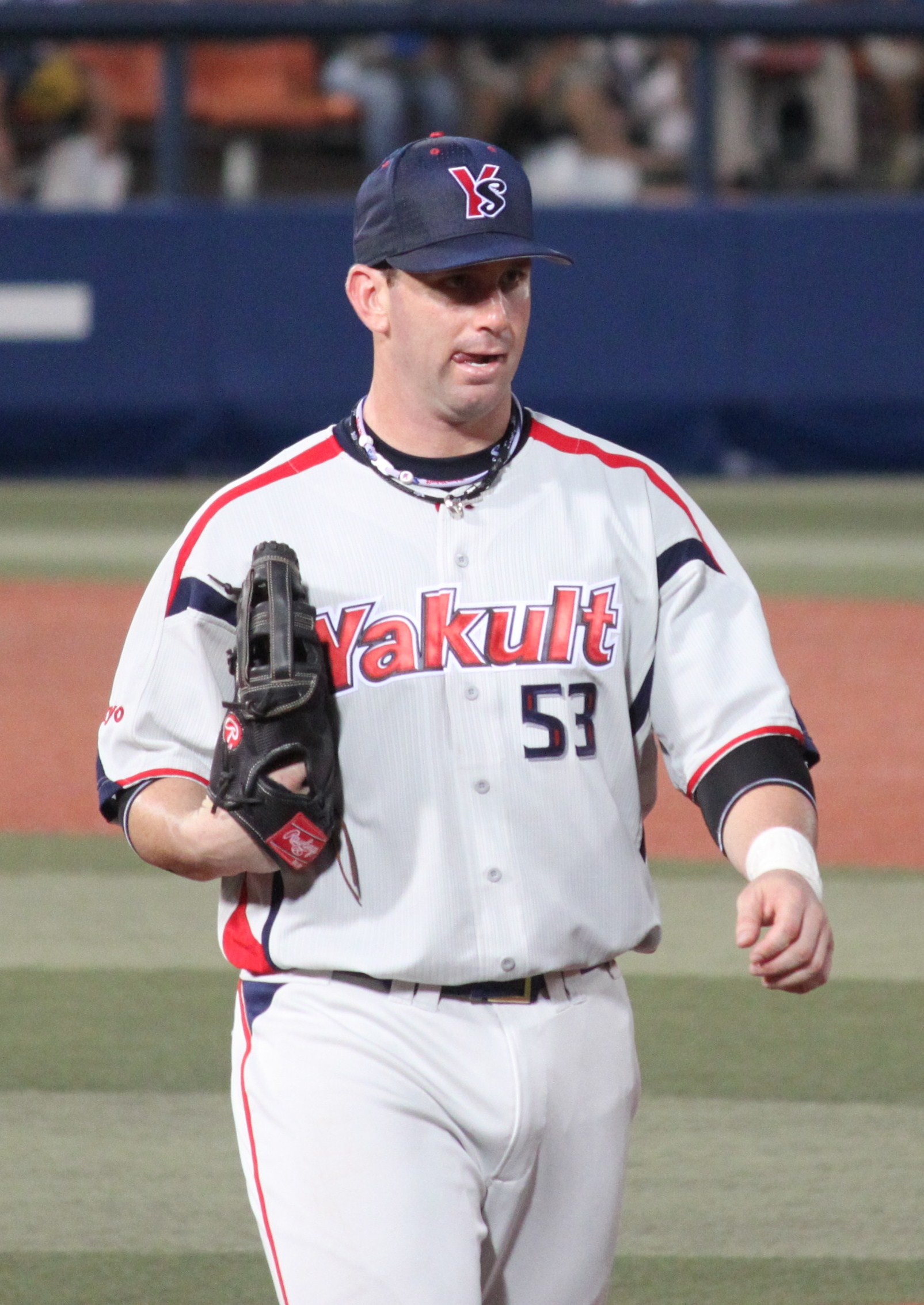 Josh Whitesell, first baseman of the Tokyo Yakult Swallows, at Yokohama Stadium.